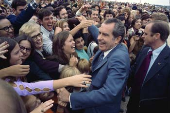 President Nixon "works the crowd" at Robins Air Force Base, Georgia.